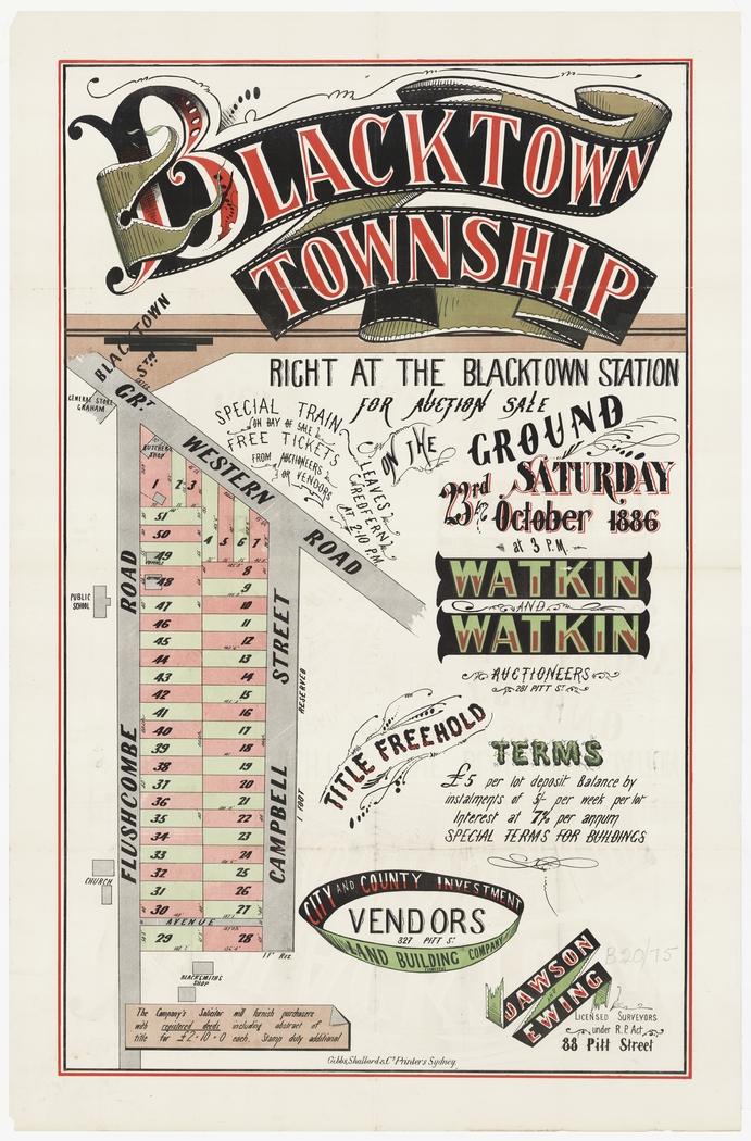 Blacktown Township, 1886, subdivision plan, lithograph, printed, Gibbs Shallard and Co., State Library of New South Wales M Z/ SP/ B20/75